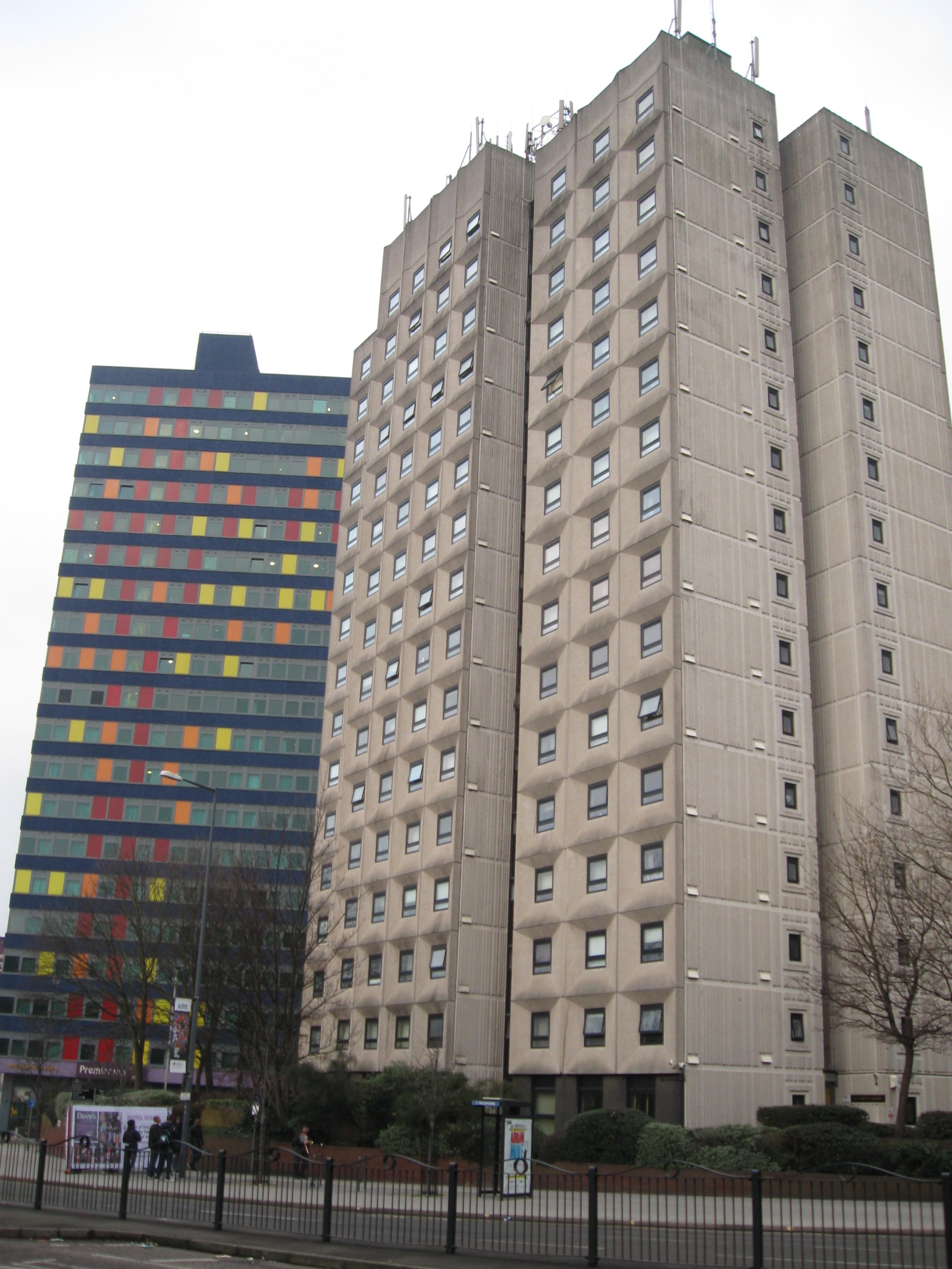 Two tower blocks in Leicester, England, near the railway station. The grey one in the foreground is Elizabeth House. The colourful one in the background is St George's Tower.